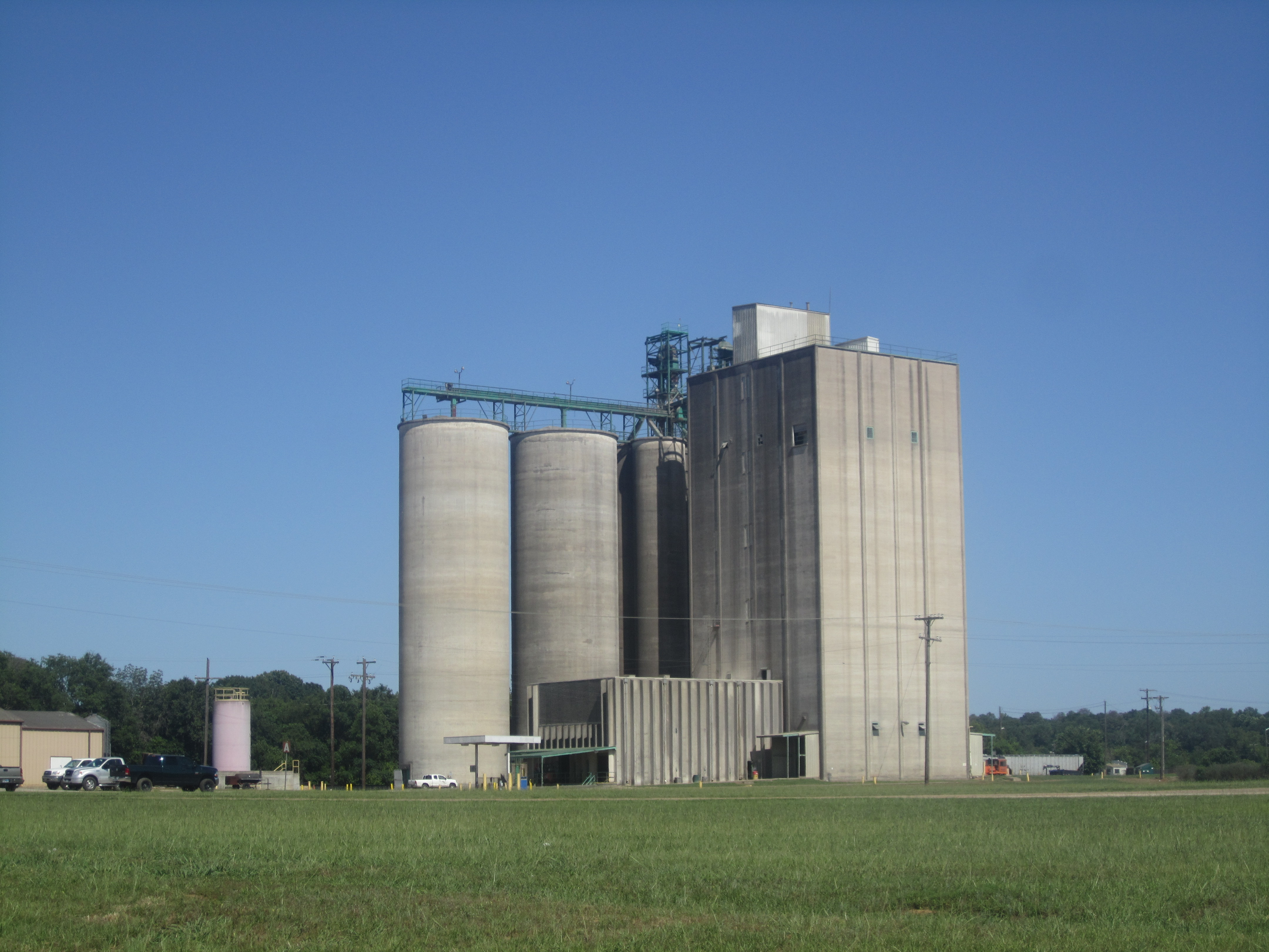 I took photo with Canon camera of Pilgrim's Pride plant in Nacogdoches, TX.Billy Hathorn (talk) 15:42, 29 June 2012 (UTC)